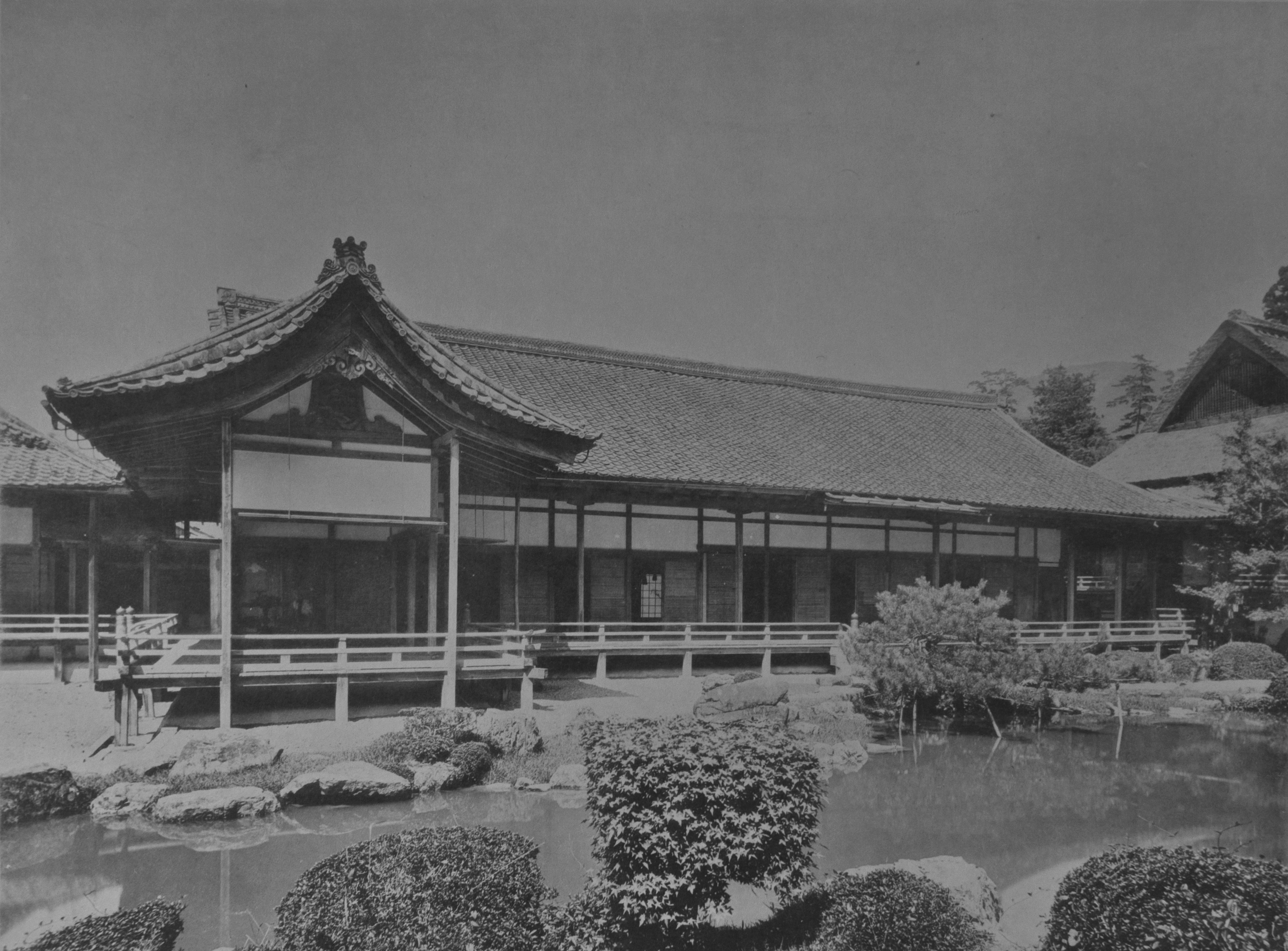 Daigoji, Kyoto, Japan